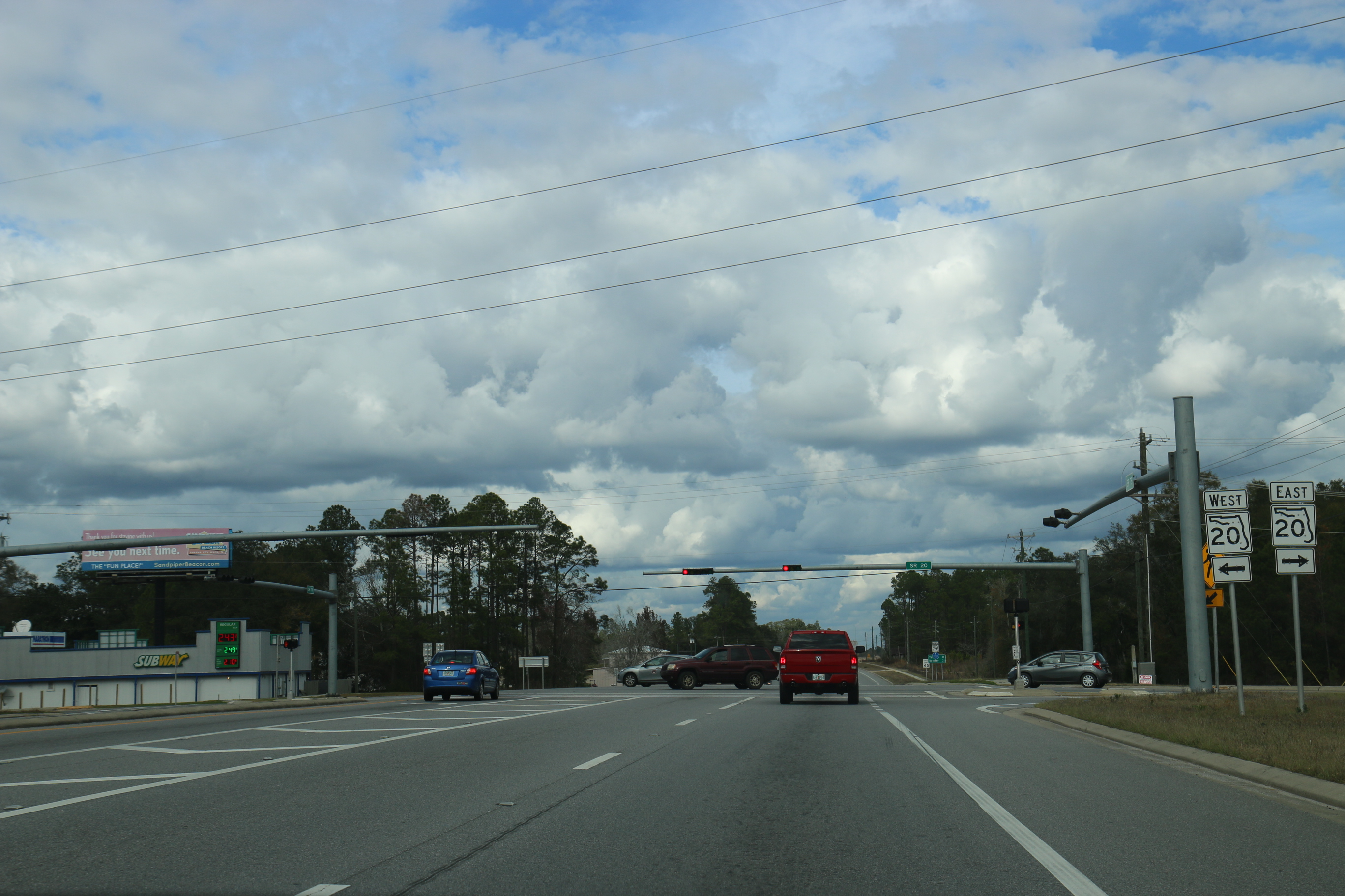 Looking northerly at the intersection of State Routes 20 and 79 in Ebro, Florida